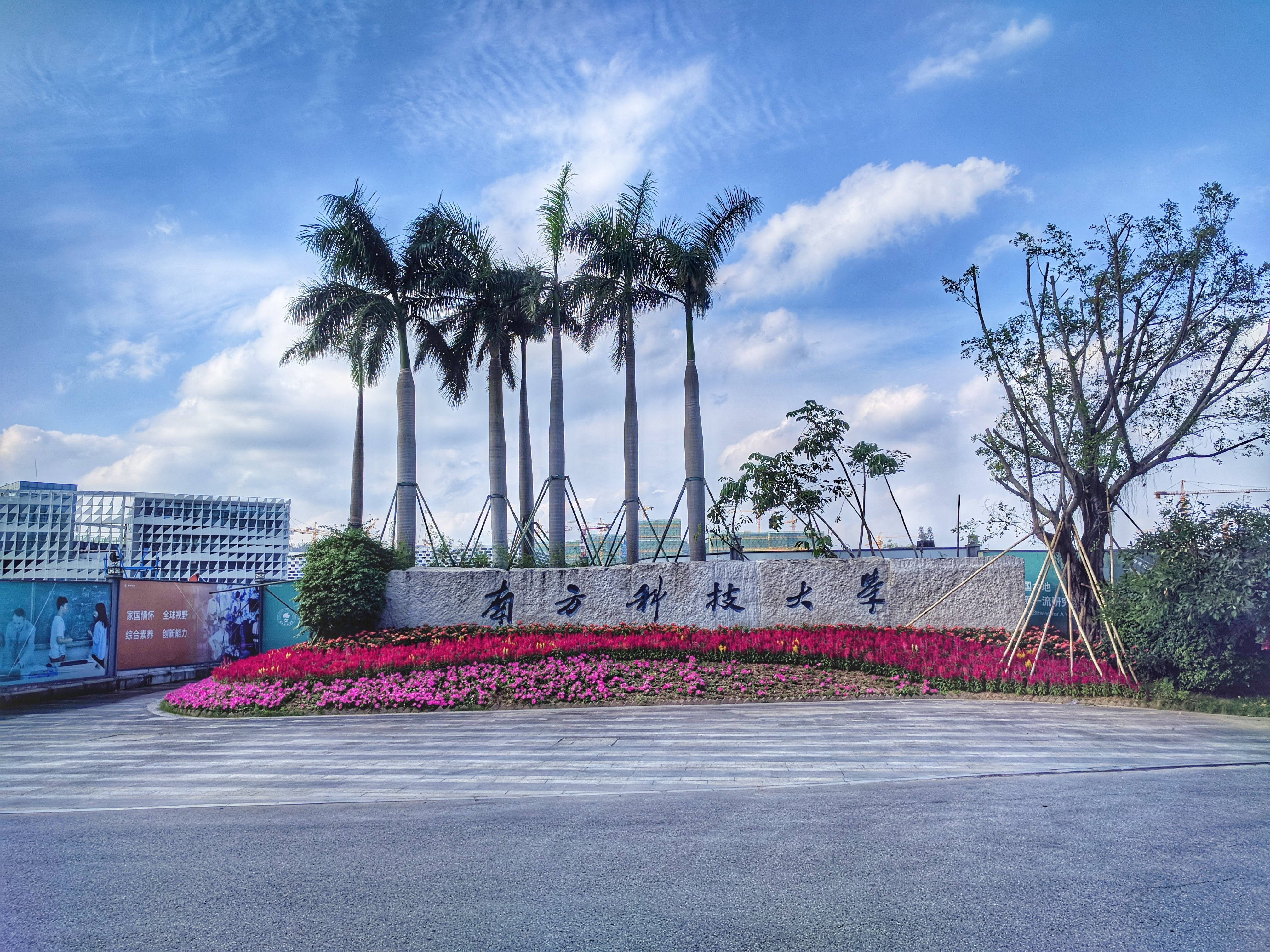 Name Stone of SUSTech